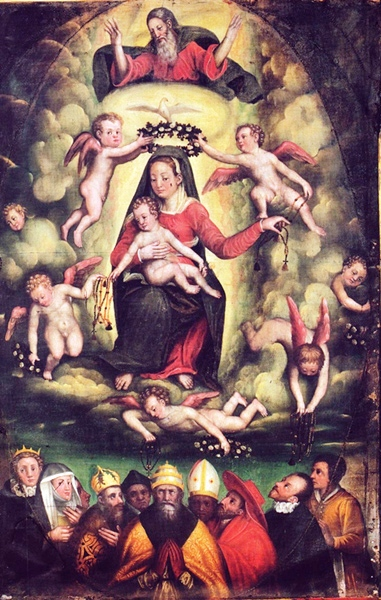 Ambrogio Oliva, Madonna del Rosario, in the church of the SS. Nome di Gesù e del Rosario (Madonna del Rosario), Occimiano, Province of Alessandria, Italy. At the base portraits of notable figures from Monferrato to the left (Margherita Paleologo, Anna d’Alençon, unidentified female profile, Carlo V, Stefano Guazzo) and from Mantova to the right (Ambrogio Aldegatto, Ercole Gonzaga, Guglielmo Gonzaga, Isabella Gonzaga). Pius V centre bottom foreground.